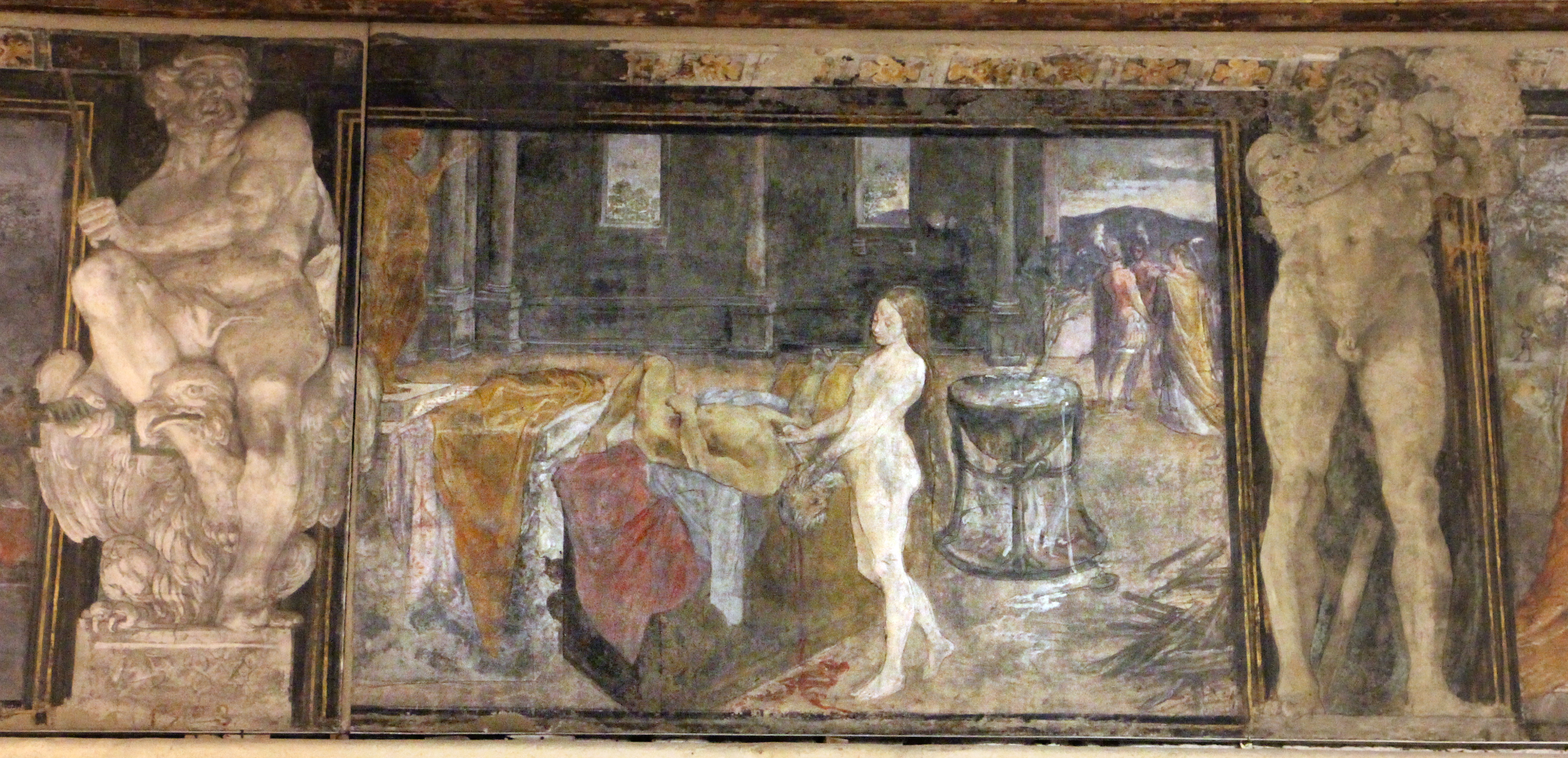 Frieze of Jason and Medea